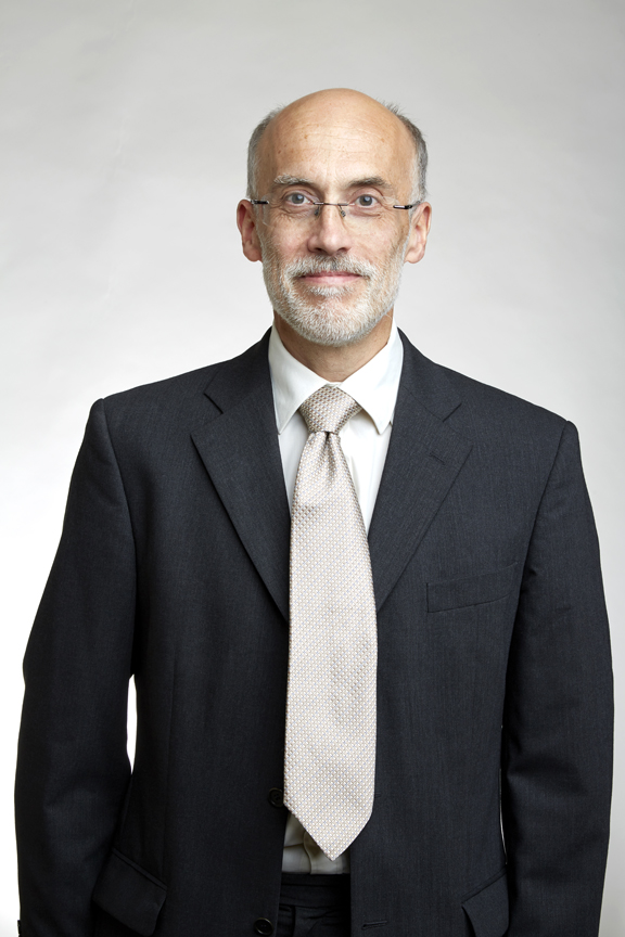 Jonathan Michael Gregory is a climate modeller working on mechanisms of global and large-scale change in climate and sea level on multidecadal and longer timescales[2][3] and the Met Office and the University of Reading Attribution: The Royal Society